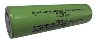 BA5800 Battery